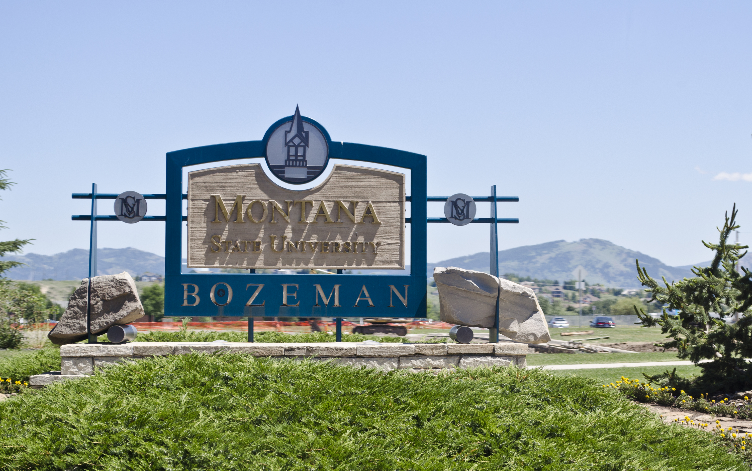 Looking northwest at a sign on the southwest corner of the campus of Montana State University in Bozeman, Montana.